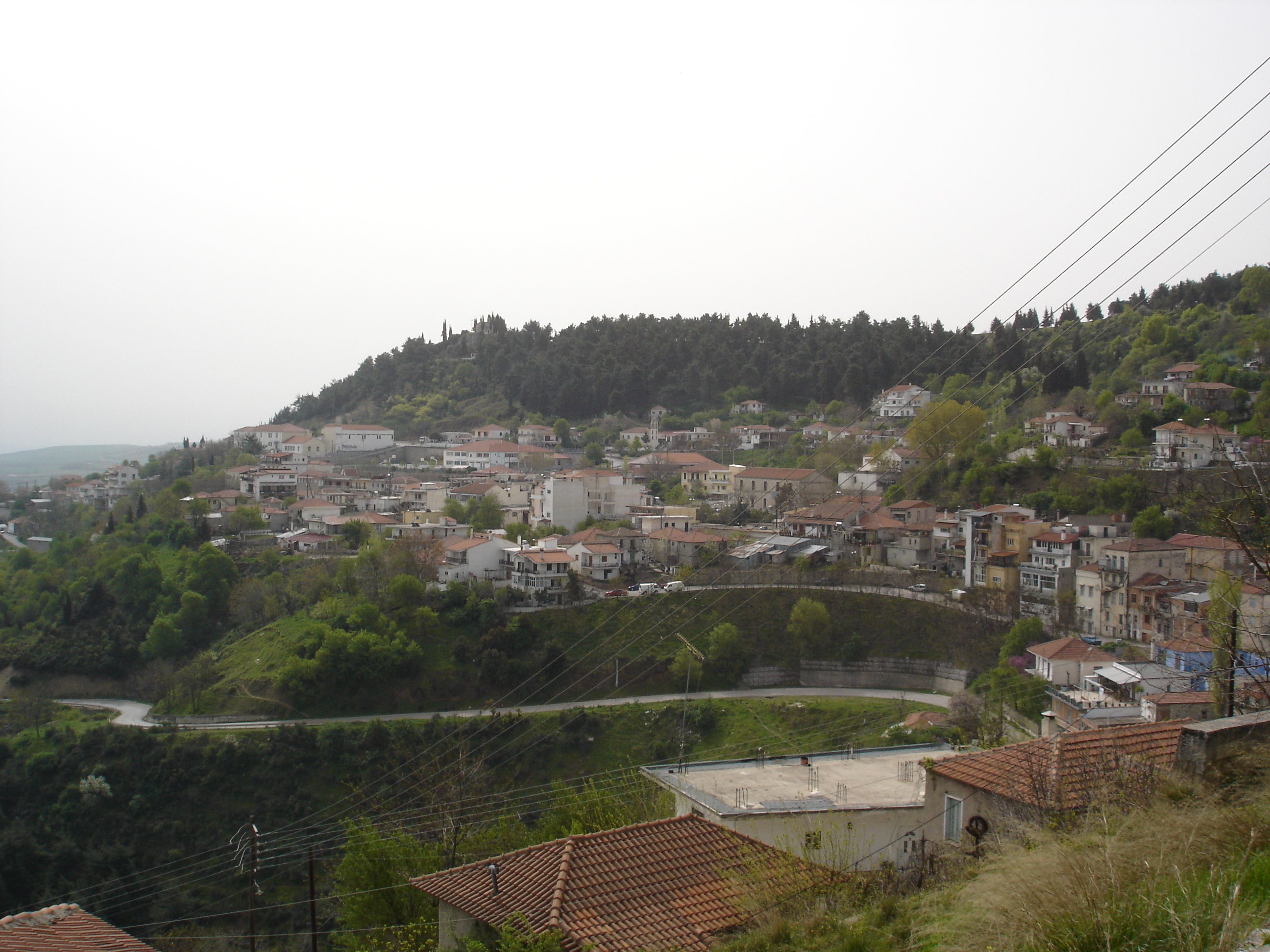 Domokos (Δομοκός) is a municipality in Phthiotis, Greece.